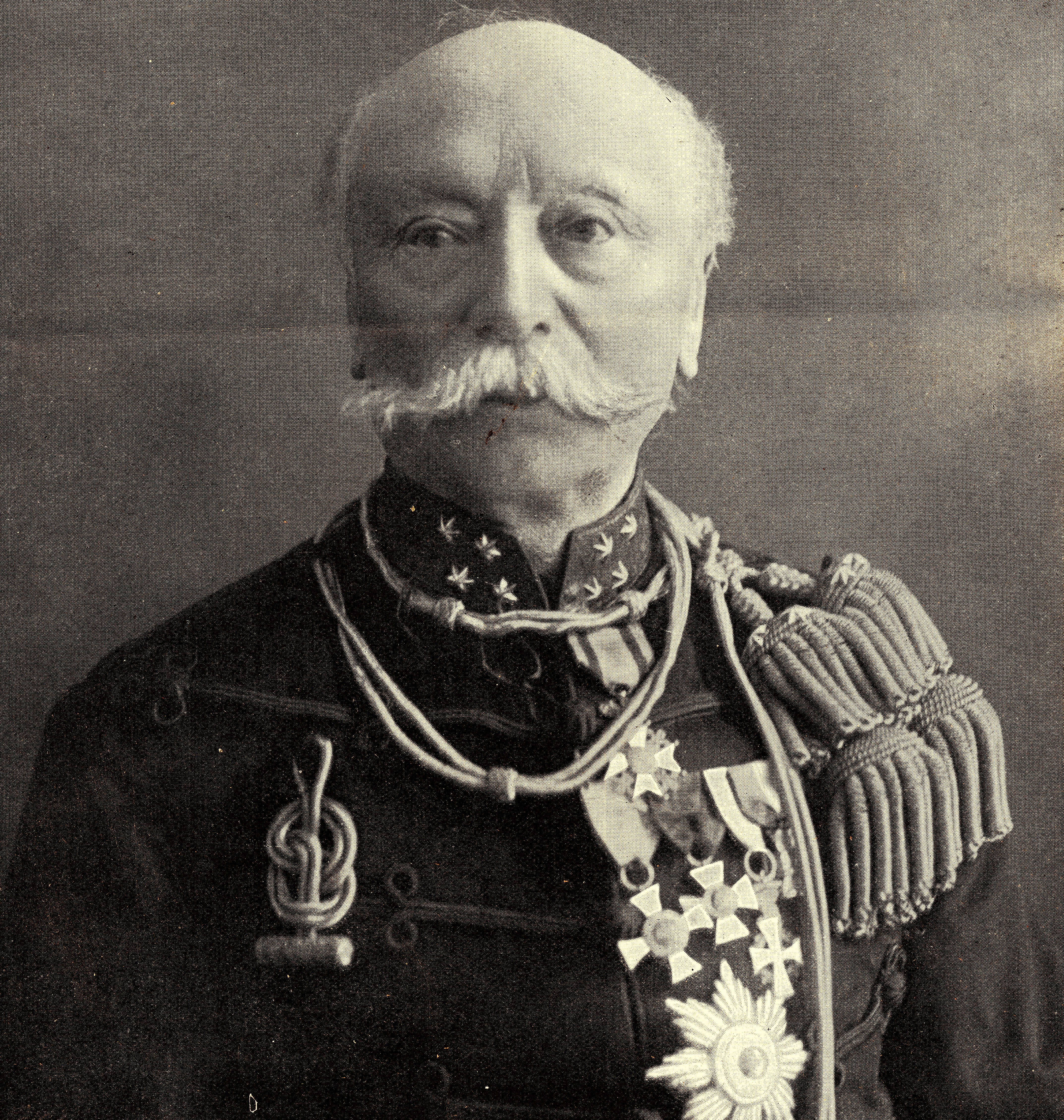 JCC den Beer Portugael